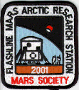 Patch used for the 2001 expedition season of the Flashline Mars Arctic Research Station (FMARS) Program.